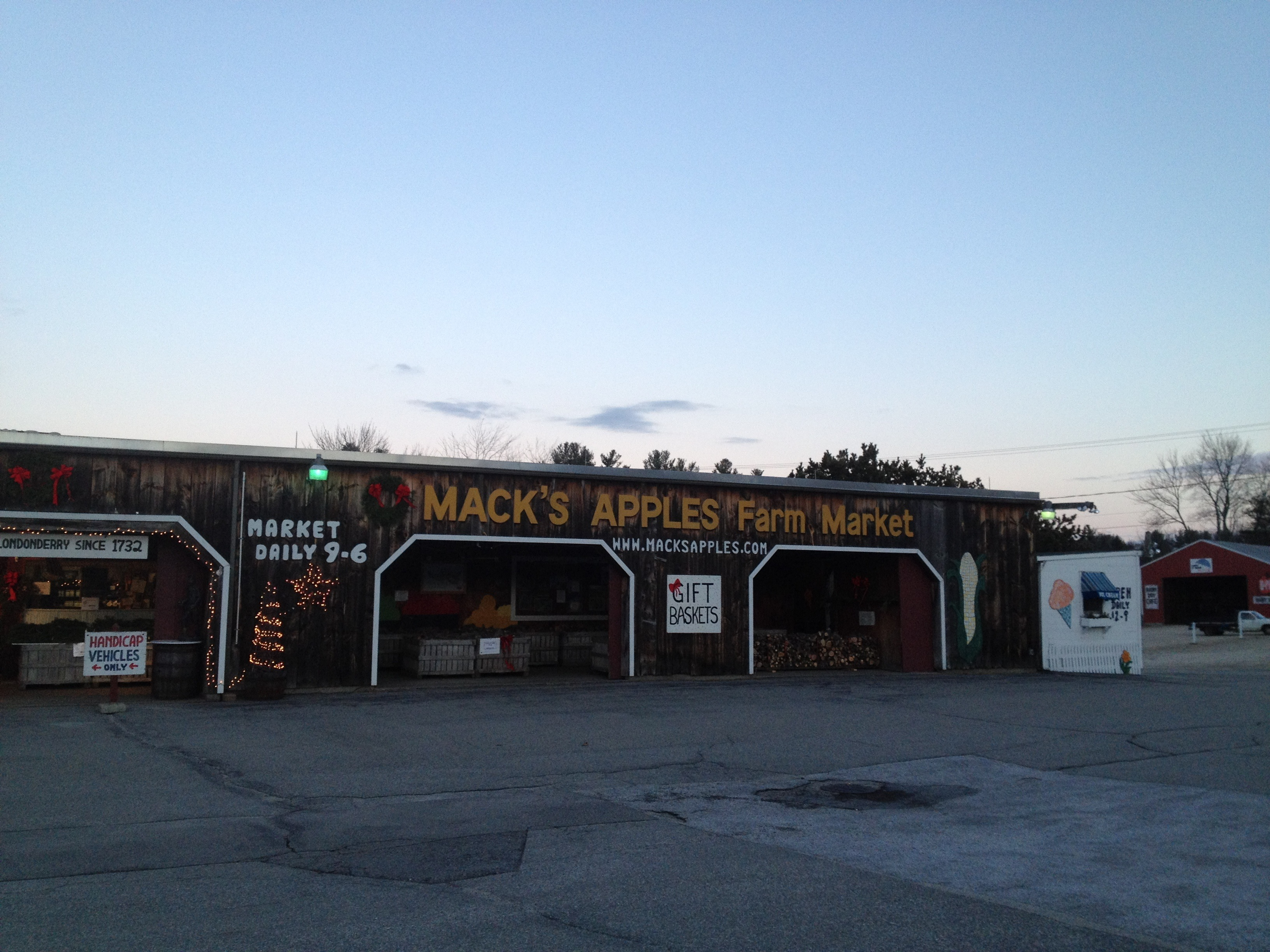 The farm market of Mack's Apples, an orchard in Londonderry, New Hampshire.